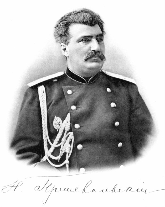 Nikolay Przhevalsky photoportrait and signature from book "From Kyakhta to the Yellow River Sources, the Northern Edge of Tibet and the Route Through the Lob-Nor and Along the Tarim Basin Investigation" 1888